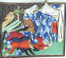 Battle of Meaux.